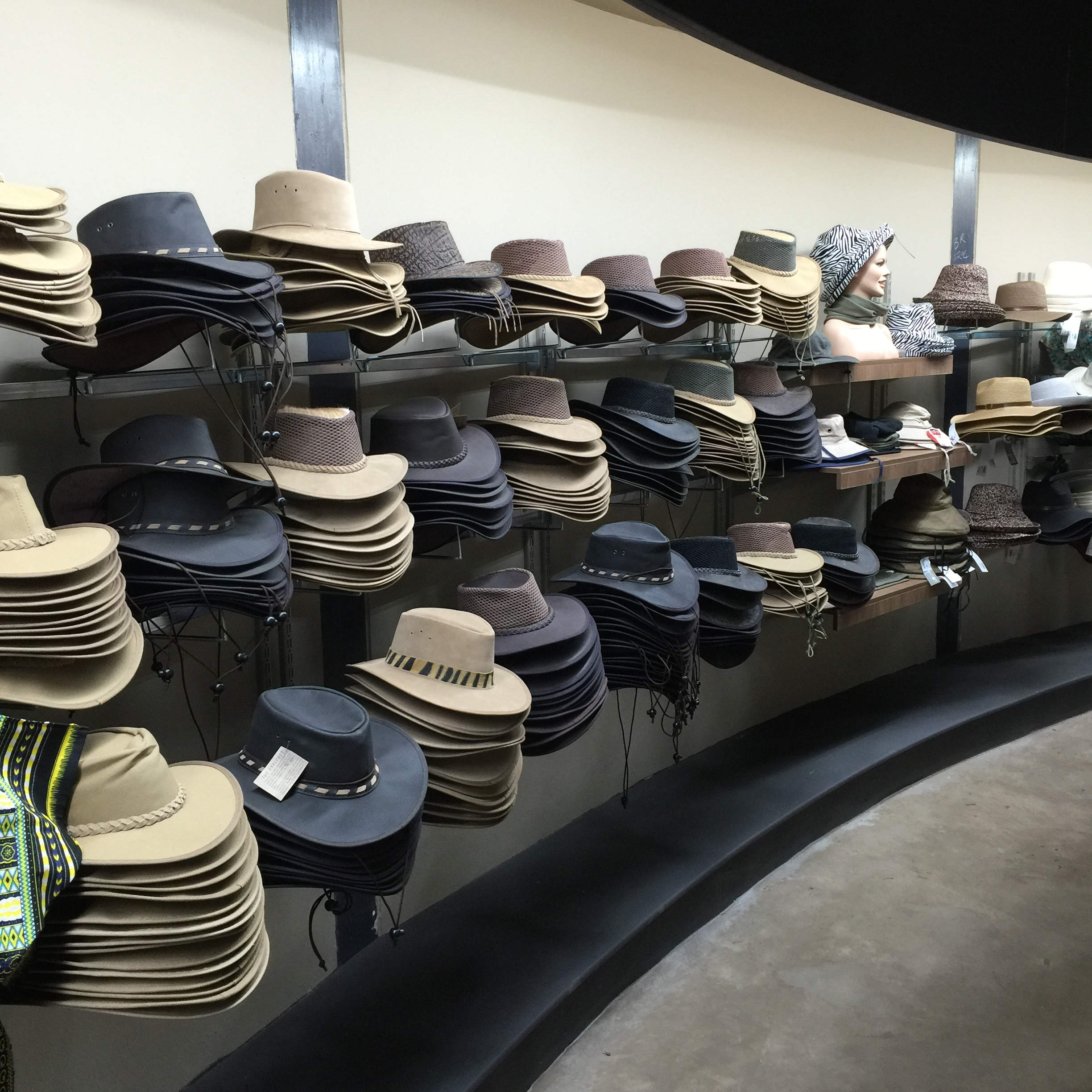 Safari style hats on sale in a store in South Africa